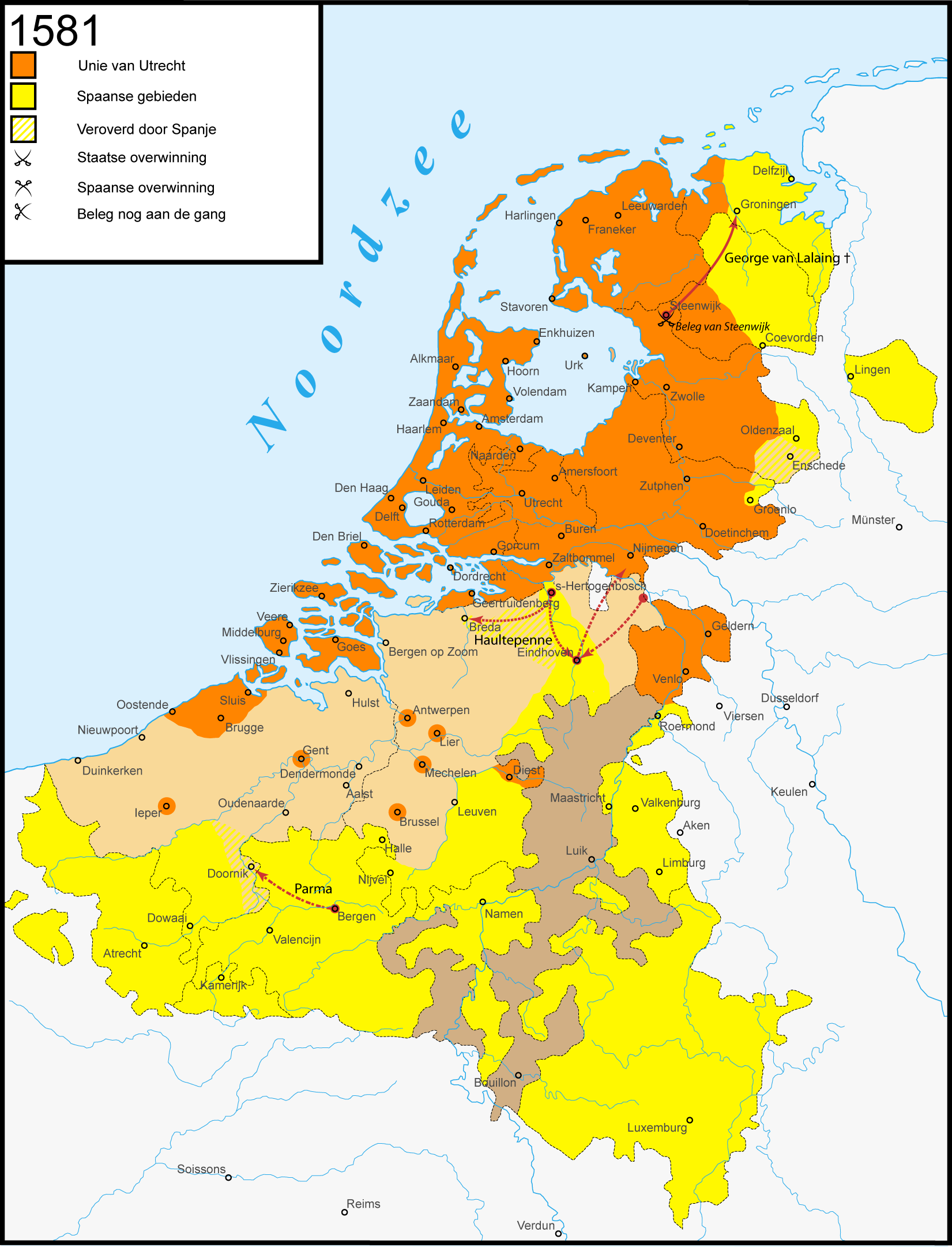 Warprogression in het Eighty Years' War: 1581. Dutch version